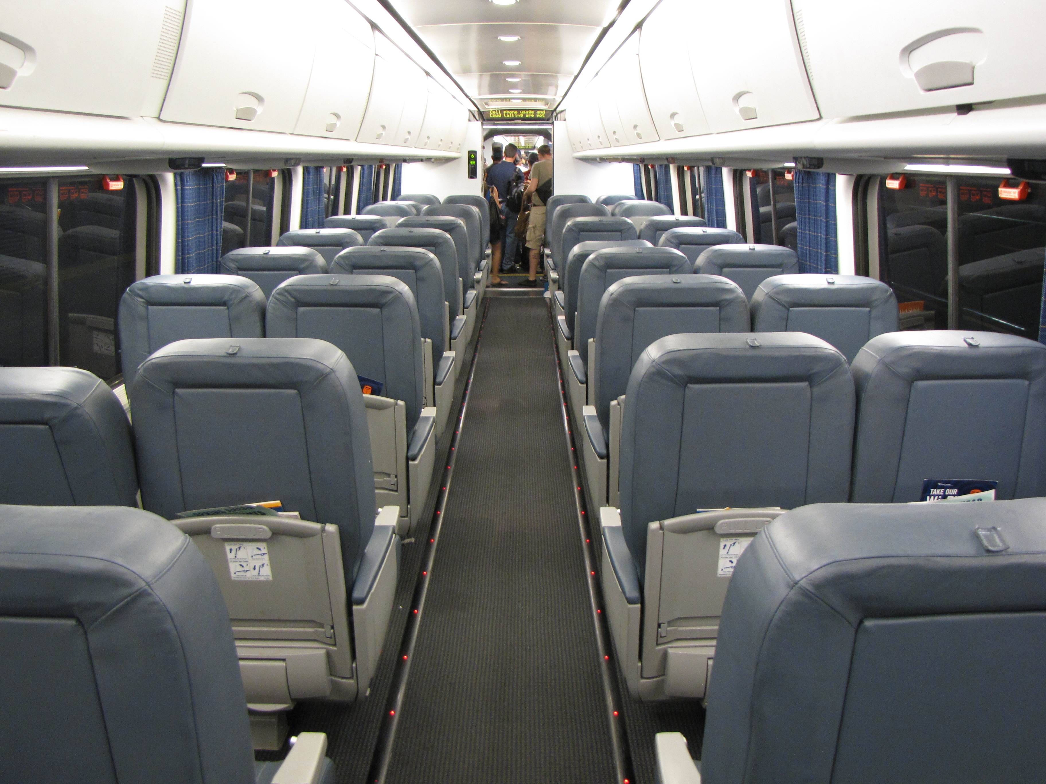 Interior of business class coach on Amtrak's Acela Express, seen here on static display at Washington Union Station for National Train Day.